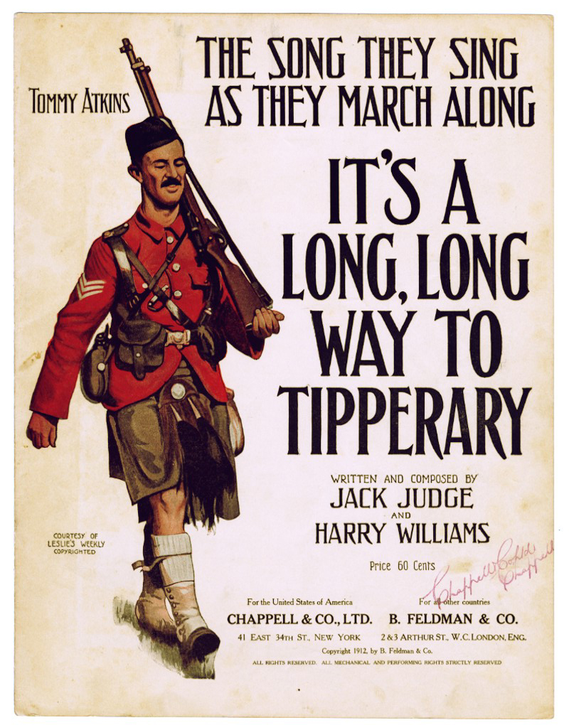 It's a Long Way to Tipperary - sheet music cover from United States/Canada issue